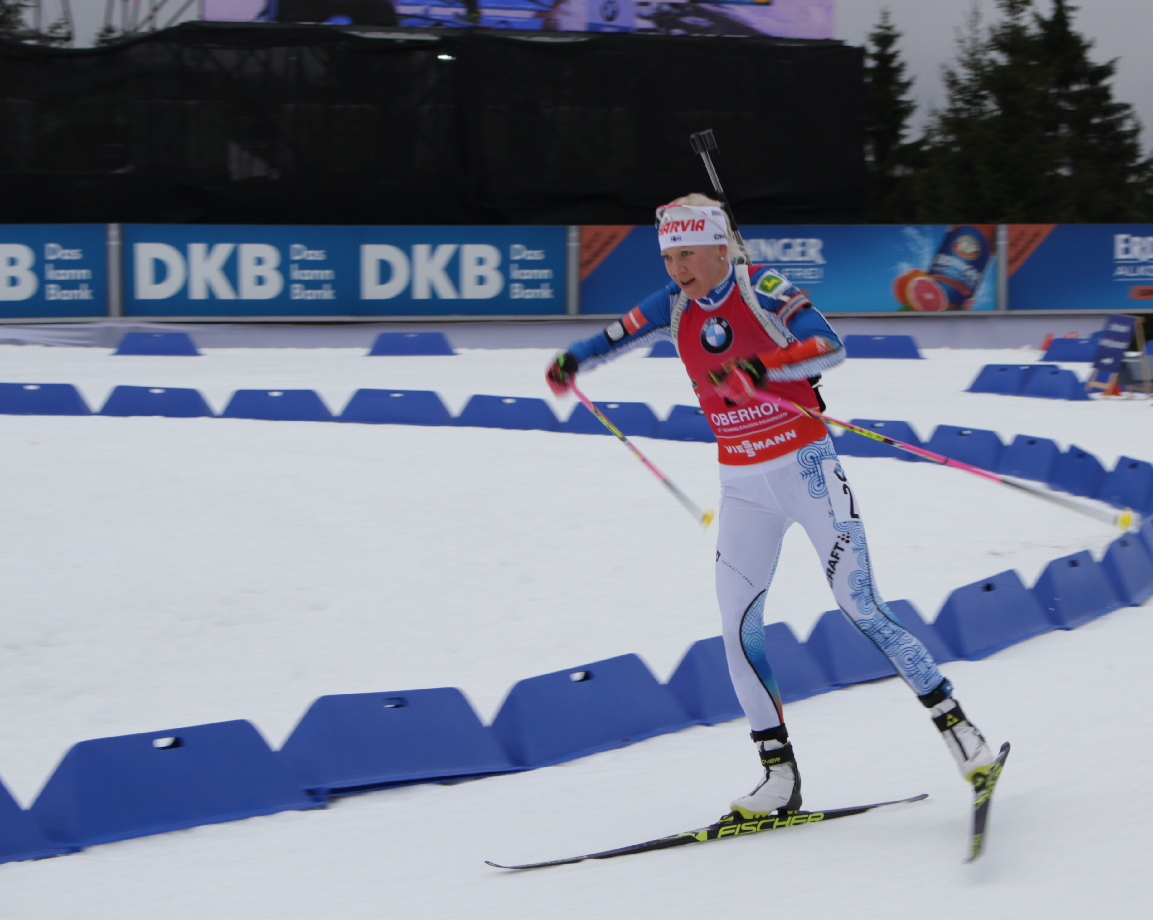 2018 Oberhof Biathlon World Cup - Pursuit Women